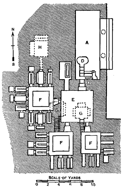 An illustration from the Encyclopaedia Biblica, a 1903 publication which is now in the public domain. Fig. 1 for article "Tomb". Plan of "the Tomb of the Kings" in Jerusalem